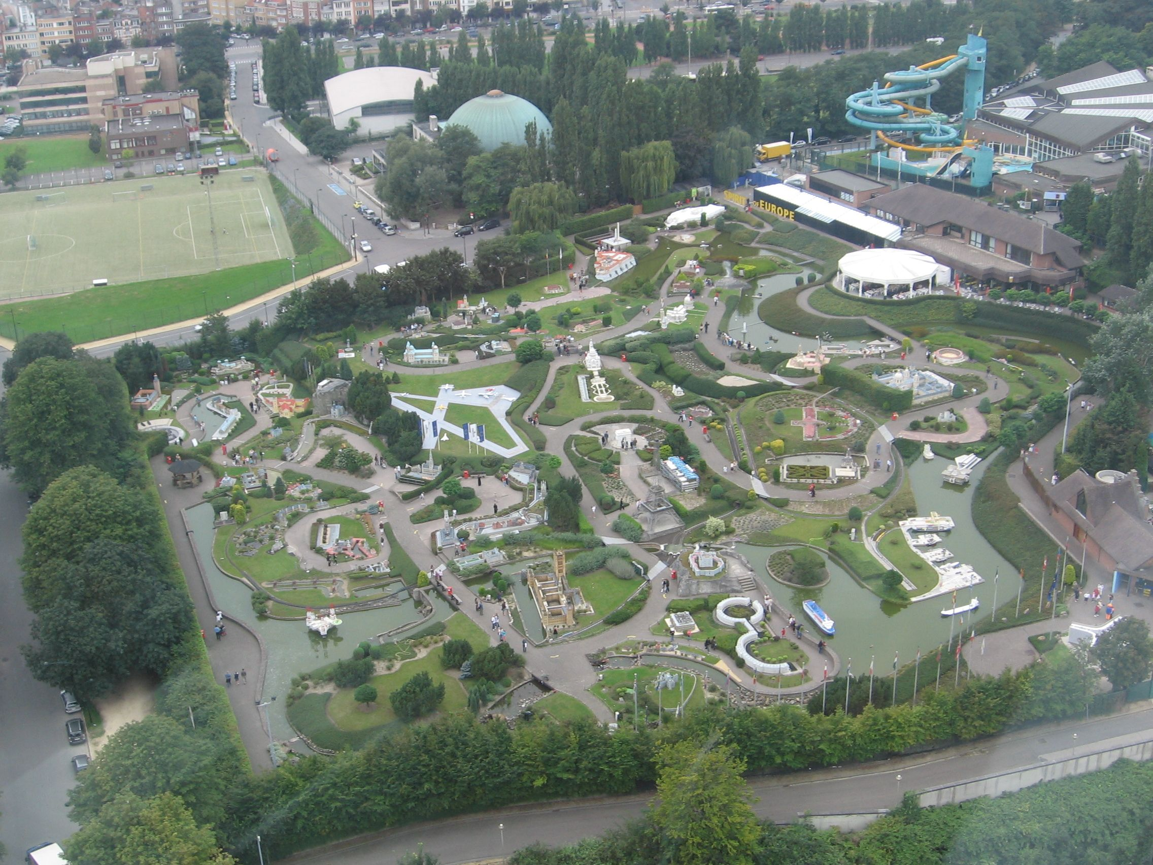 Mini Europe Park in Brussels, Belgium: Bird's eye view from the Atomium.